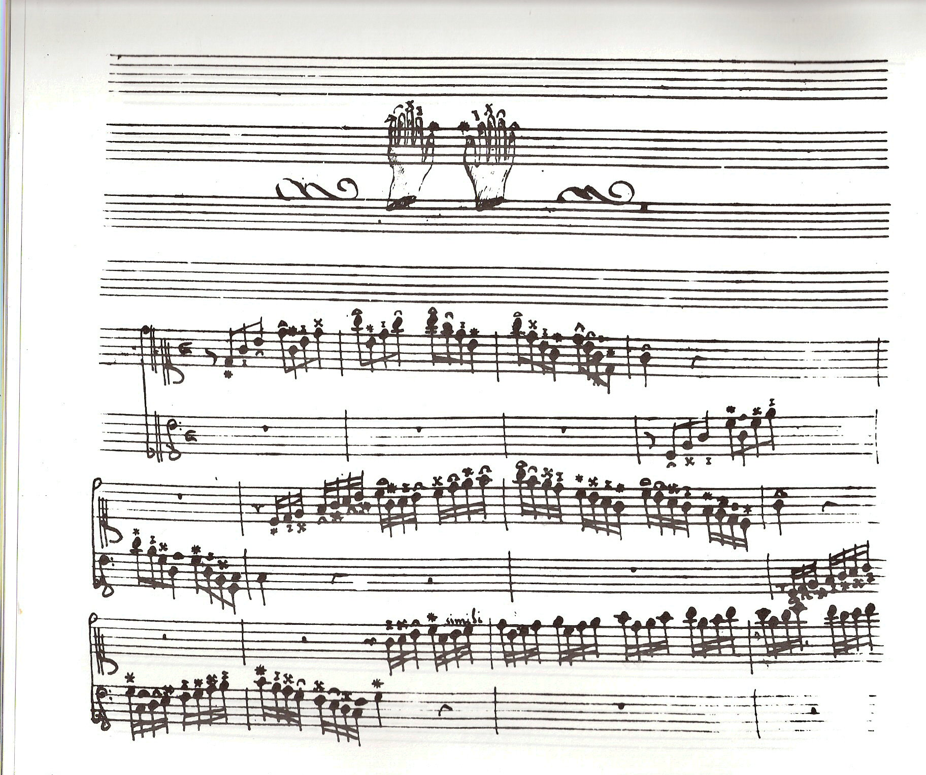 A demonstration of fingering in a toccata by Alessandro Scarlatti